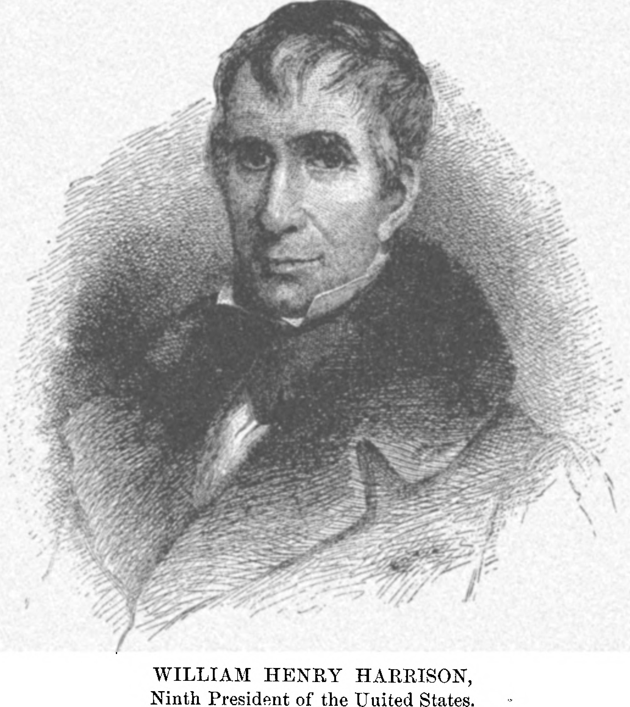 Title: Historical Collections of Ohio: An Encyclopedia of the State ; History Both General and Local, Geography with Descriptions of Its Counties, Cities and Villages, Its Agricultural, Manufacturing, Mining and Business Development, Sketches of Eminent and Interesting Characters, Etc., with Notes of a Tour over It in 1886 V 2 Year: 1891 (1890s) Authors: Howe, Henry, 1816-1893 Subjects: Ohio -- Biography Ohio -- History Ohio -- Local History Ohio -- Description and travel Publisher: Columbus : Henry Howe & Son View Book Page: Book Viewer About This Book: Catalog Entry View All Images: All Images From Book Click here to view book online to see this illustration in context in a browseable online version of this book. Text Appearing Before Image: st of Februarysome of the trees were putting forth theirfoliage ; in March the red bud, the hawthornand the dog-wood, in full bloom, checkeredthe hills, displaying their beautiful colors ofrose and lily; and in April the ground wascovered with May apple, bloodroot, ginseng,violets, and a great variety of herbs andflowers. Flocks of parroquets were seen,decked in their rich plumage 6f green andgold. Birds of various species, and of everyhue, were flitting from tree to tree, and thebeautiful redbird, and the untaught songsterof the west, made the woods vocal with theirmelody. Now might be heard the plaintivewail of the dove, and the rumbling drum ofthe partridge, or the loud gobble of theturkey. Here might be seen the clumsybear, doggedly moving off, or urged by pur-suit into a laboring gallop, retreating to hiscitadel in the top of some lofty tree; or, ap-proached suddenly, raising himself erect inthe attitude of defence, facing his enemy andwaiting his approach ; there the timid deer, Text Appearing After Image: '